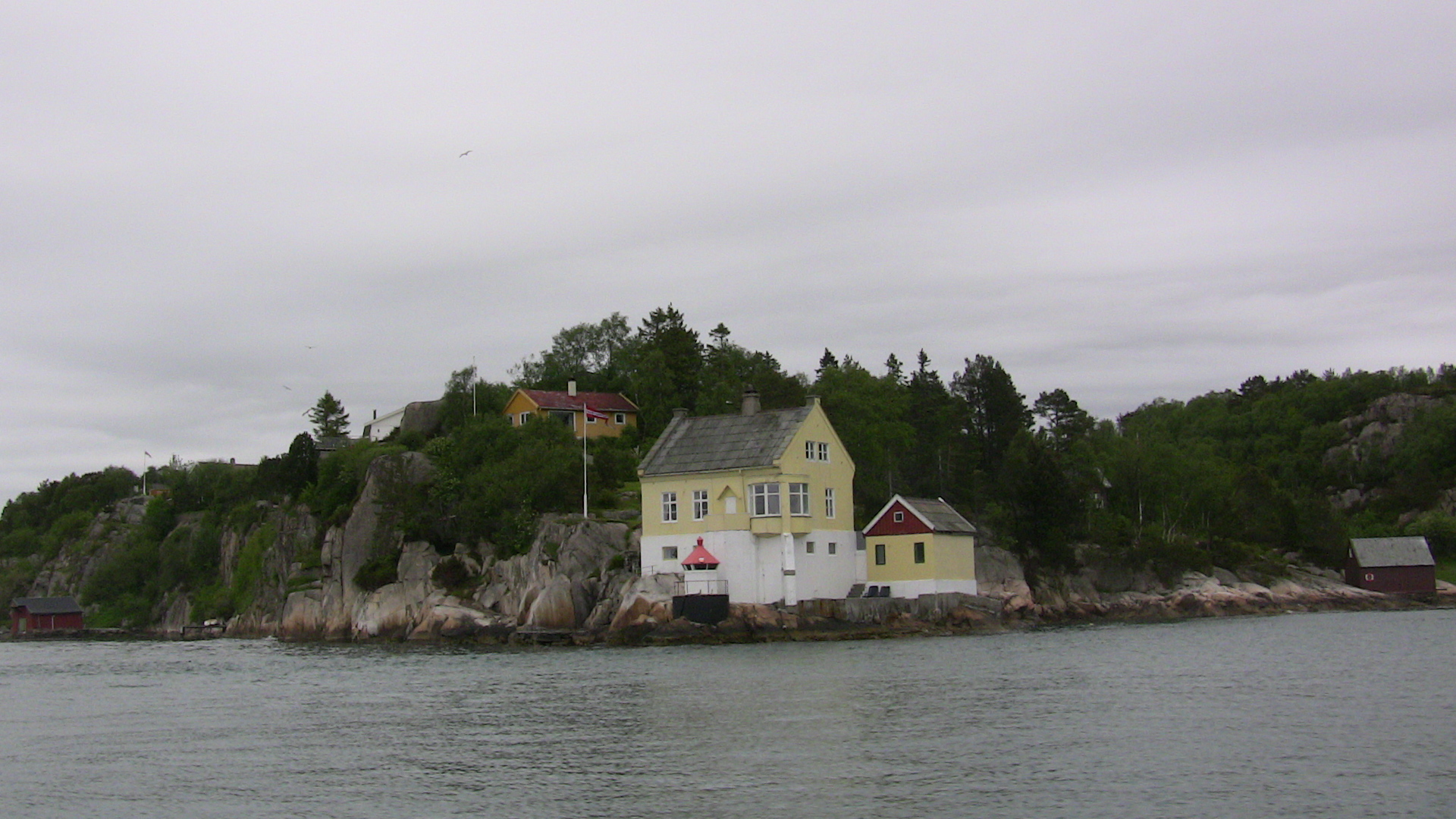 Vatlestraumen lighthouse